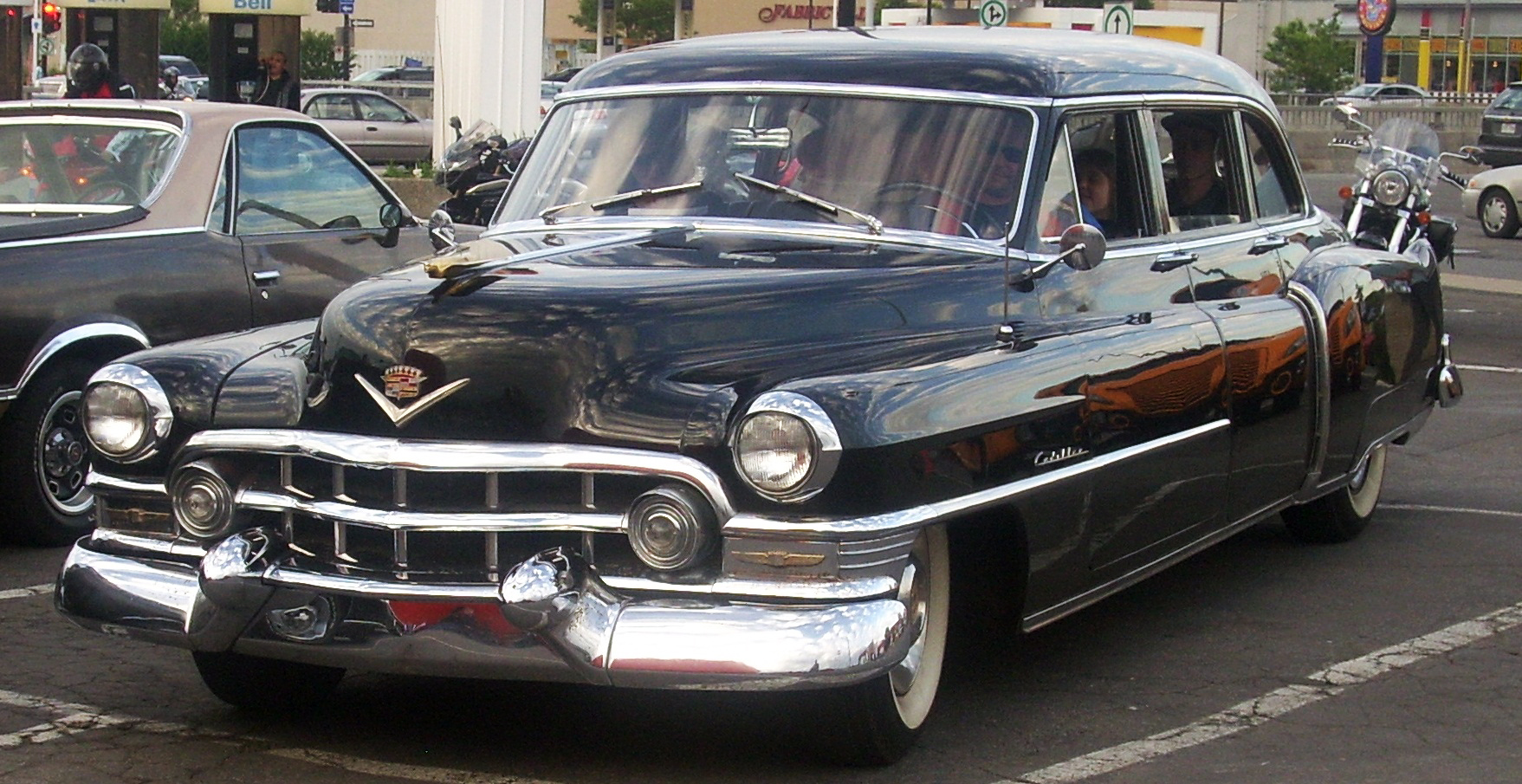 Cadillac photographed in Montreal, Quebec, Canada at Gibeau Orange Julep.